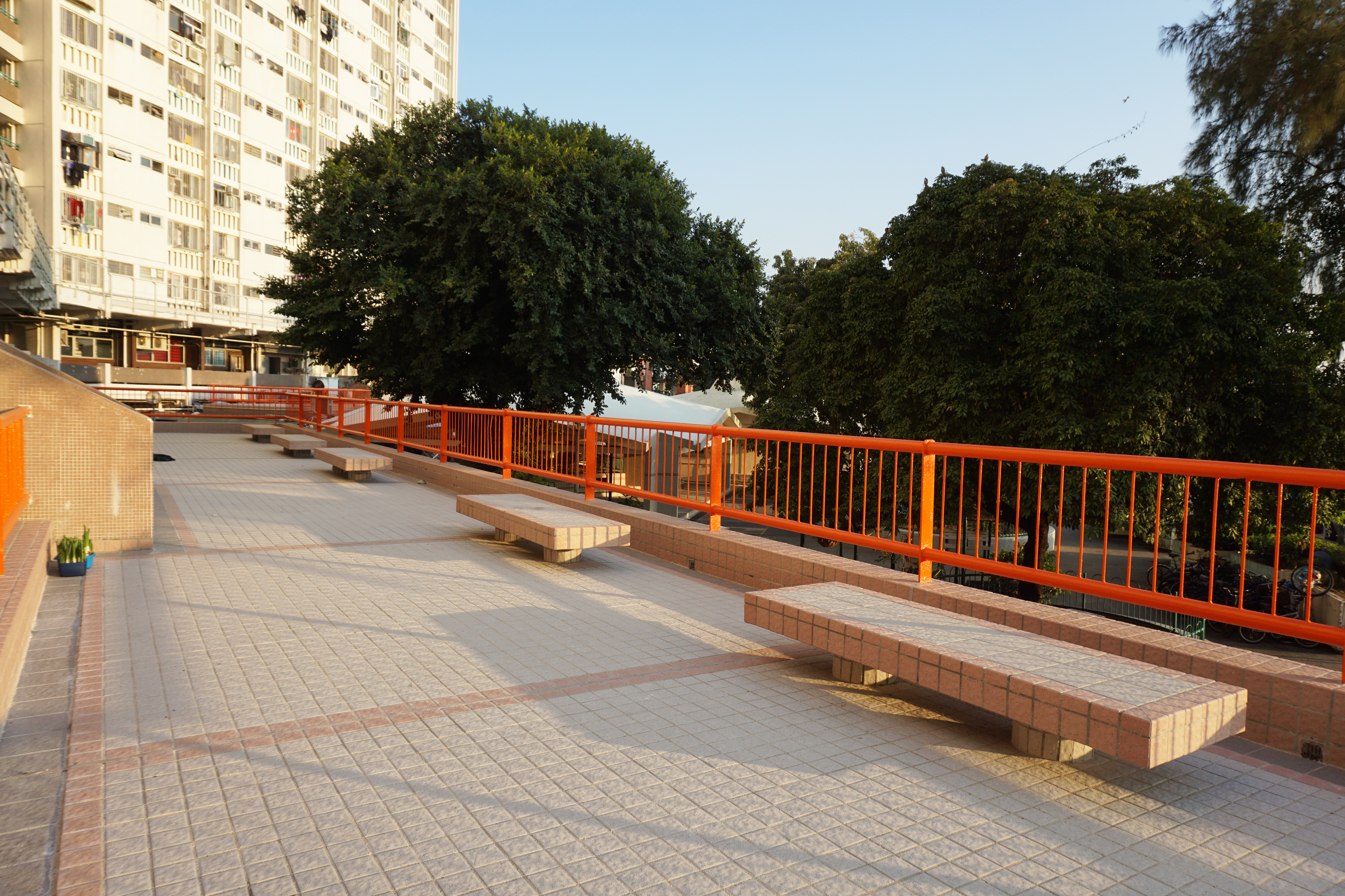 Sam Shing Estate in Tuen Mun, Hong Kong.